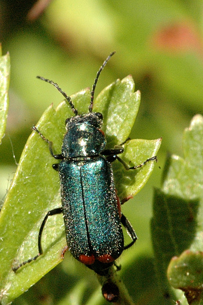 Picture taken in Commanster, Belgian High Ardennes . Species: Malachius bipustulatus